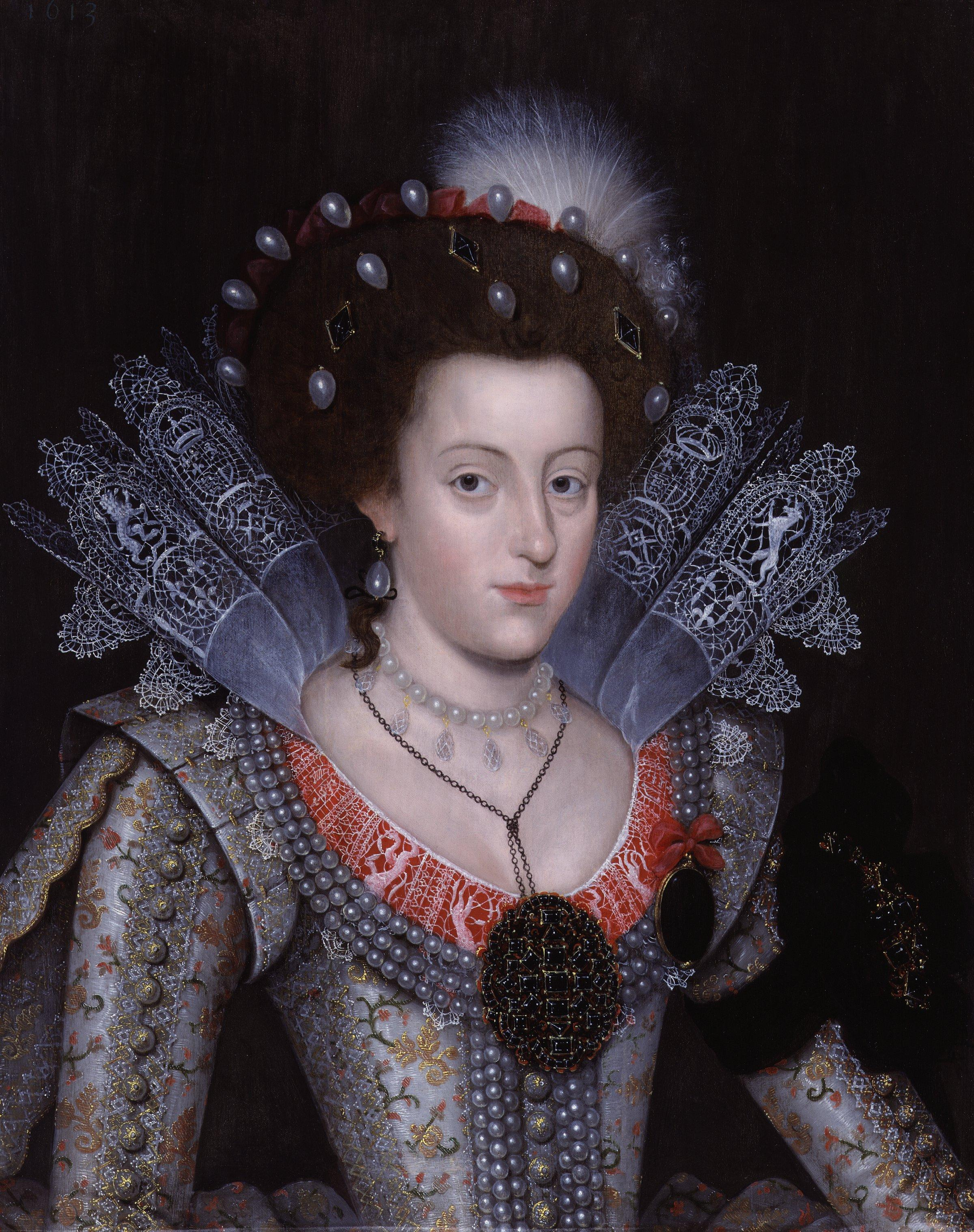 Portrait of Princess Elizabeth Stuart, later Queen of Bohemia, called the Winter Queen. Elizabeth's standing collar of reticella is worked with the Royal coat of arms with its lion and unicorn supporters. She wears a gown of Italian silk brocade. The black armband is thought to be a sign of mourning for her brother Henry Frederick, Prince of Wales who died in 1612. (Notes after Aileen Ribeiro, Fashion and Fiction: Dress in Art and Literature in Stuart England, Yale, 2005.)